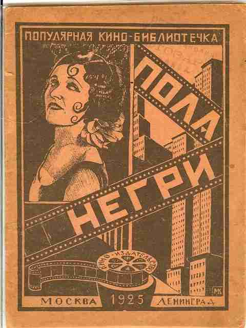 Cover of the first book Pola Negri by Ayn Rand published in 1925 in Moscow, Russia.